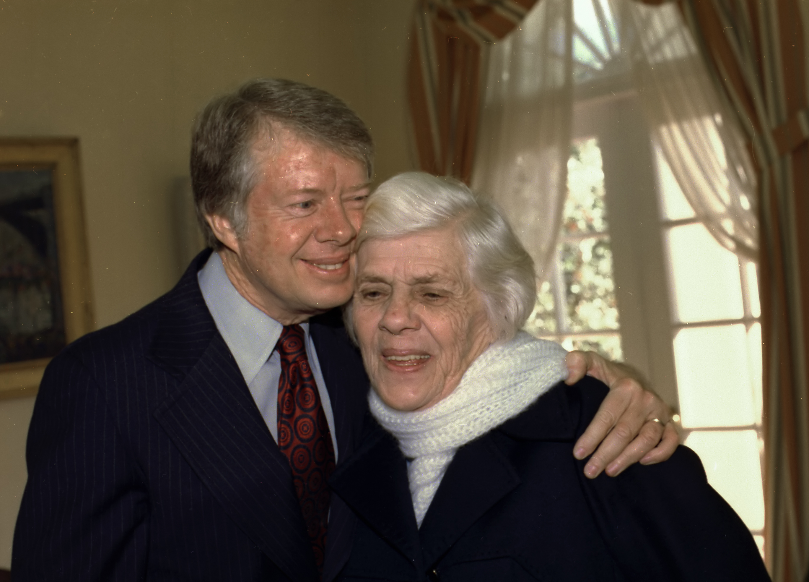 Jimmy Carter and his mother Miss Lillian Carter